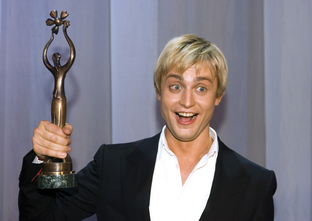 “Russia's Dmitry Danilenko won Slavic Bazaar Grand Prix”. Russia's Dmitry Danilenko won the Grand Prix at the 18th International Contest of Pop Music Singers Vitebsk 2009, during the Slavic Bazaar festival.